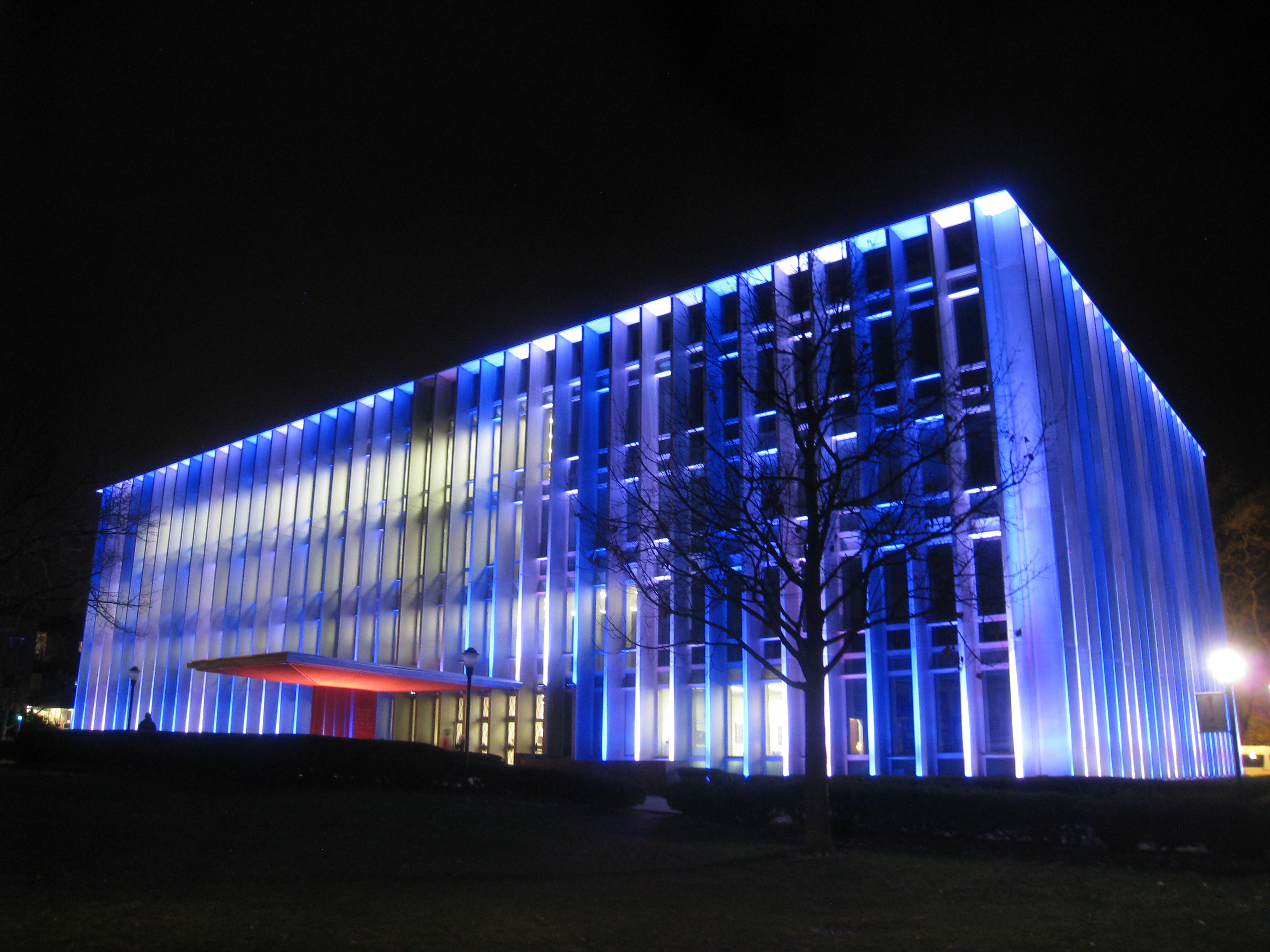 Hunt Library illuminated at night, Carnegie Mellong University, Pittsburgh, Pennsylvania, USA.